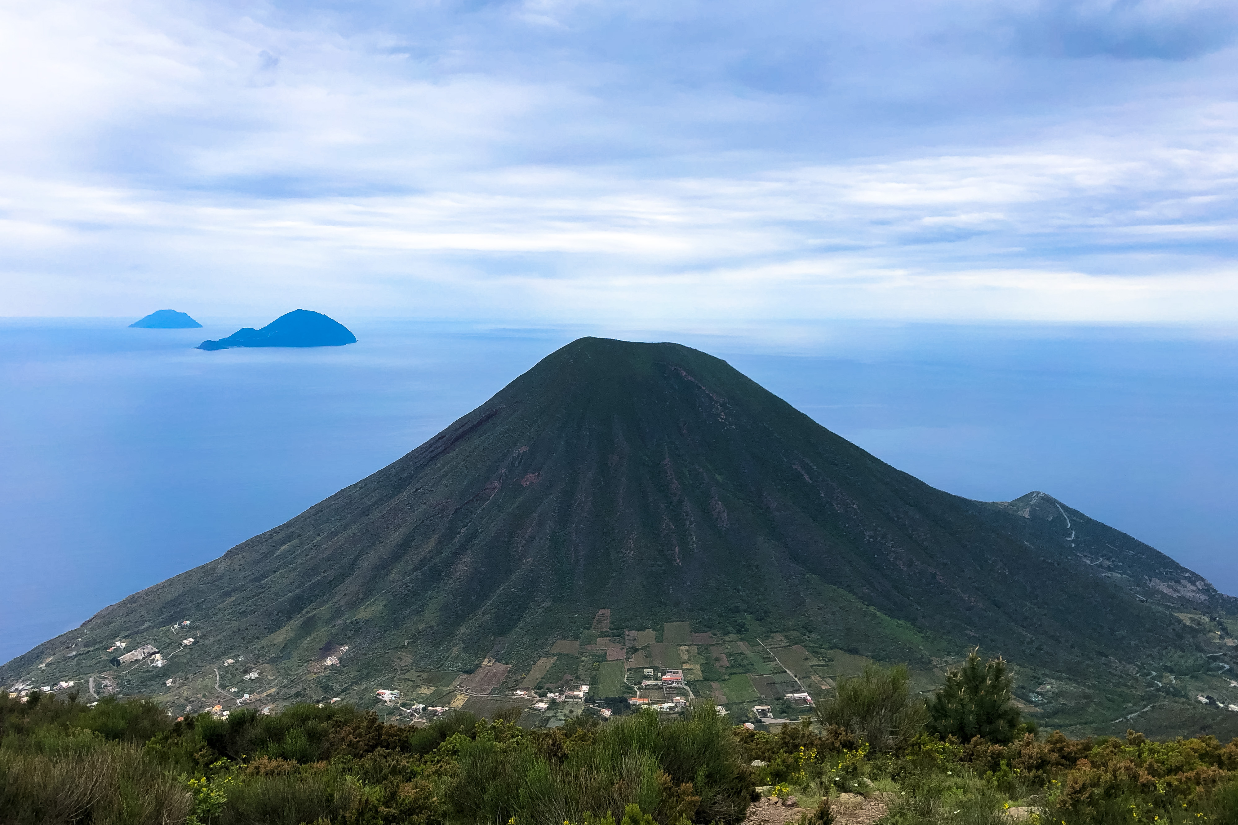 view from the top of Monte Fossa delle Felci (964m) towards Monte dei Porri (886m) and the islands of Filicudi (front) and Alicudi (back)